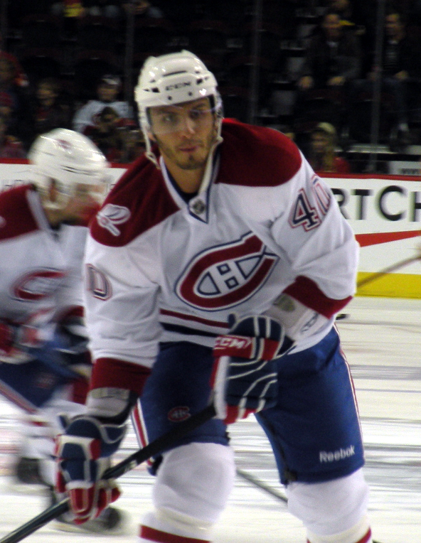 Montreal Canadiens forward Maxim Lapierre during warm-up prior to a National Hockey League game against the Calgary Flames, in Calgary.